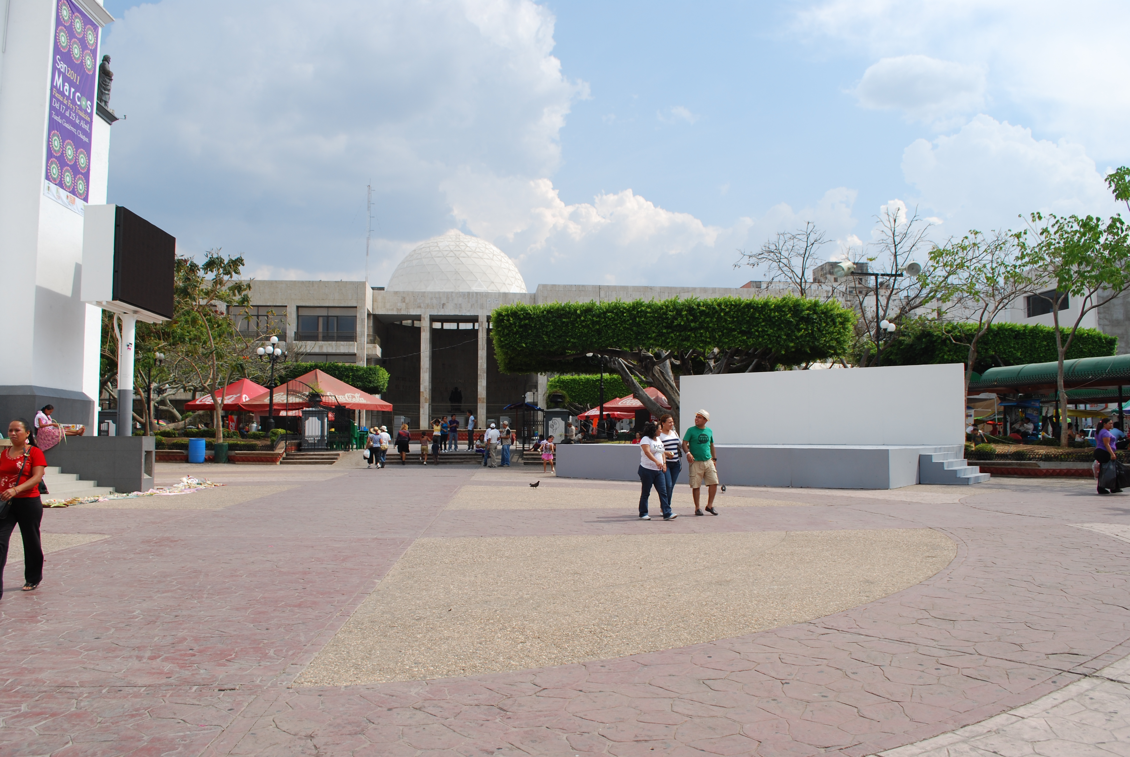 Atrium in front of the San Marcos Cathedral in Tuxtla Gutierrez, Chiapas, Mexico. In the background is the state congress building.